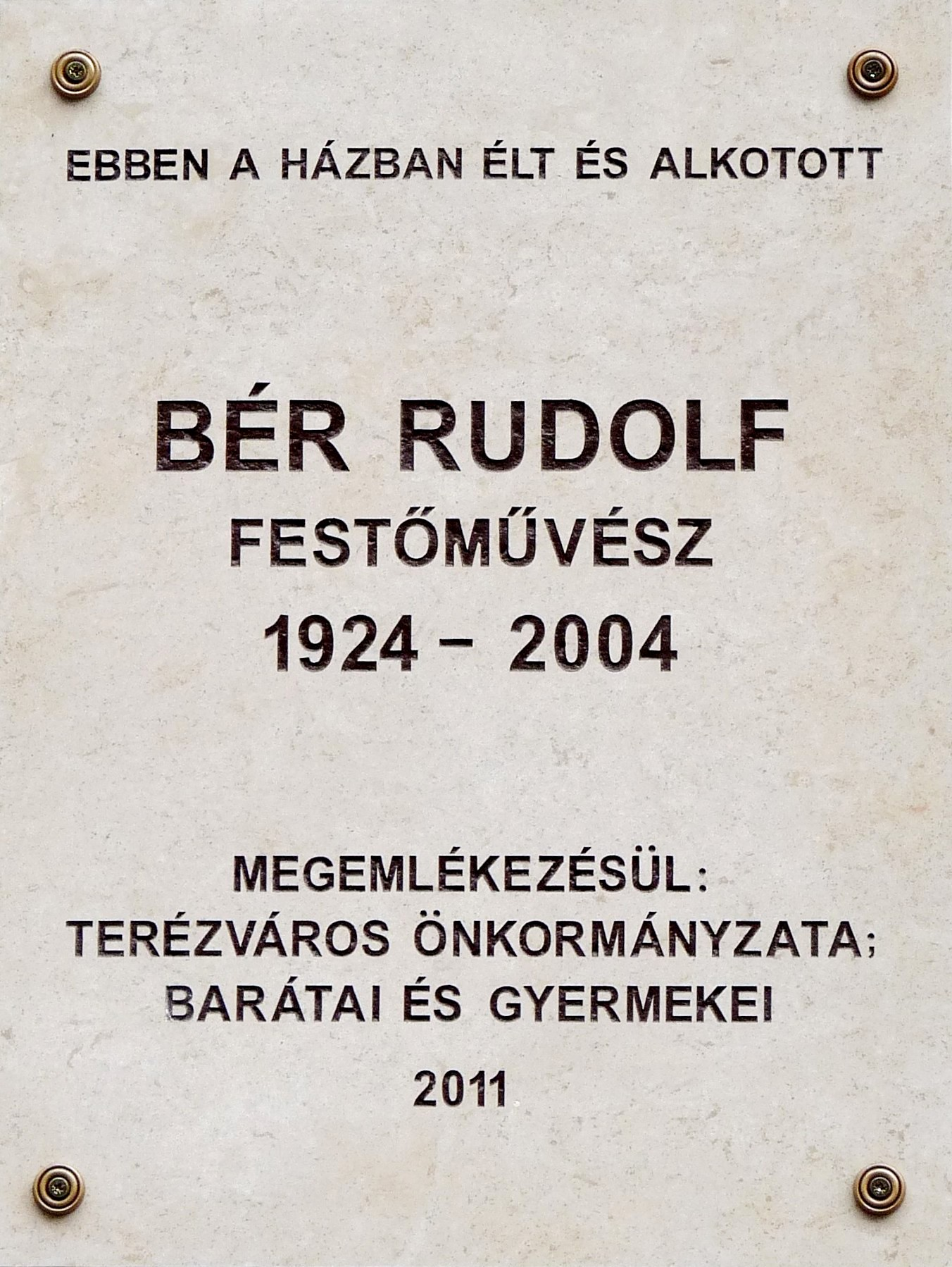 Rudolf Bér commemorative plaque in Budapest District VI, Nagymező Street No 8.